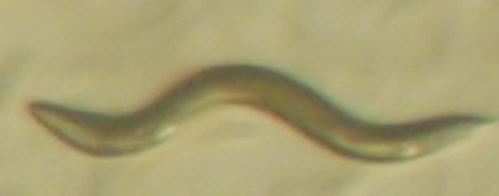 Effects of nhr-80(RNAi) in the Δ9 Desaturase Mutant Background. (Crop of Fig. 7A from the cited paper: wild-type C. elegans under RNAi suppression of a nuclear hormone receptor gene NHR-80, involved in the regulation of desaturase enzymes.)